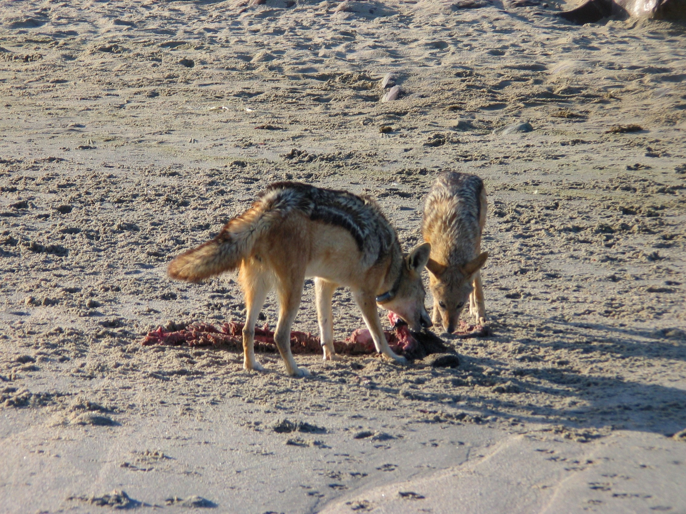 Black backed jackal